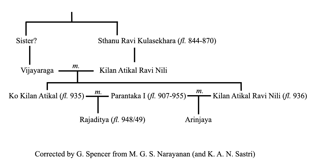 Cola-Cera Perumal relations (c. 9th-10th centuries AD)